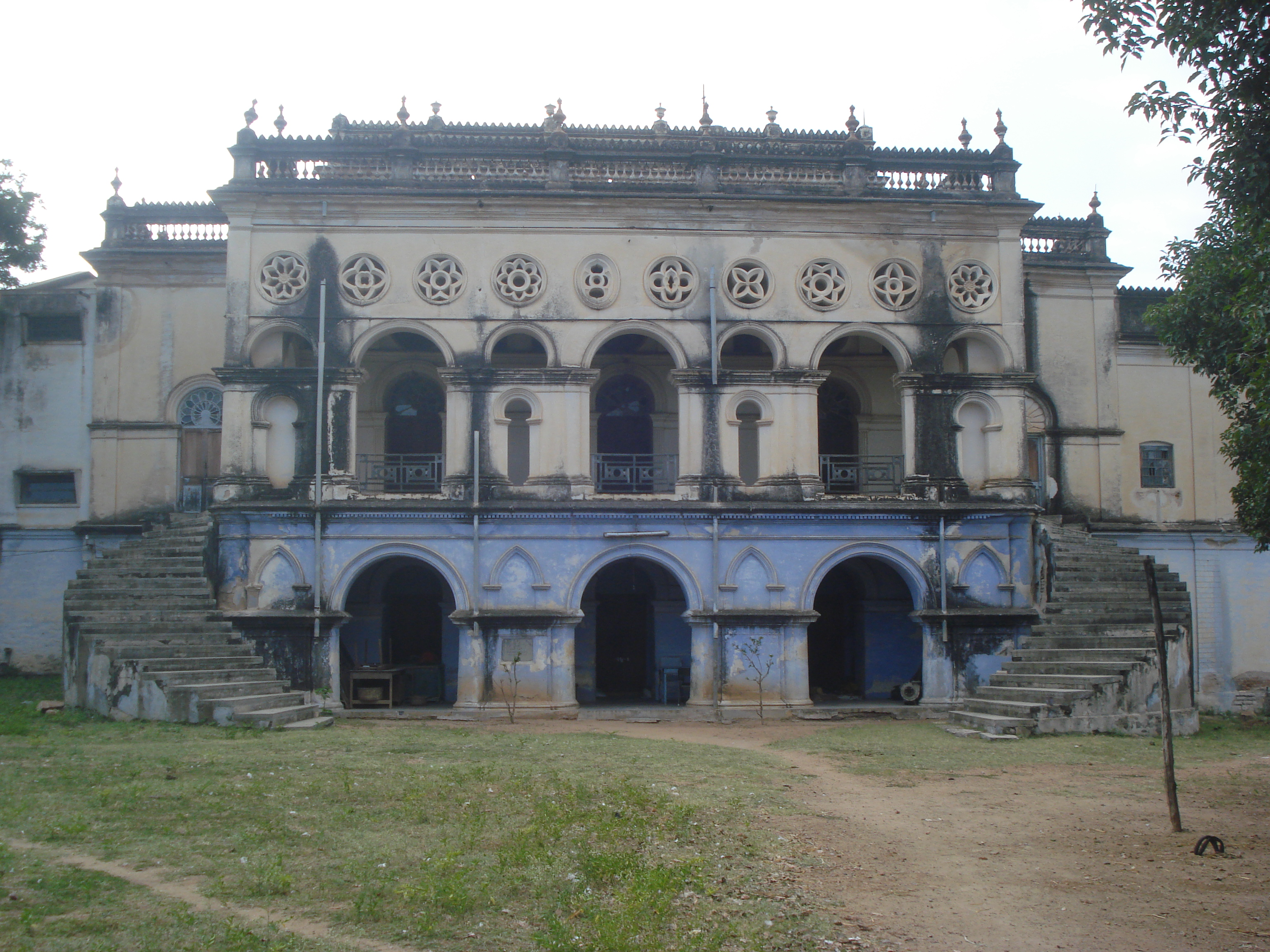 Kollapur-Palace -The royal family has now migrated to Hyderabad entrusting the palace to the diwan.